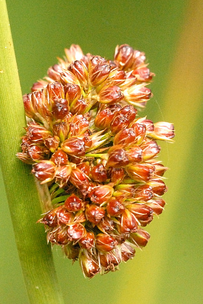 Juncus conglomeratus from Commanster, Belgian High Ardennes .